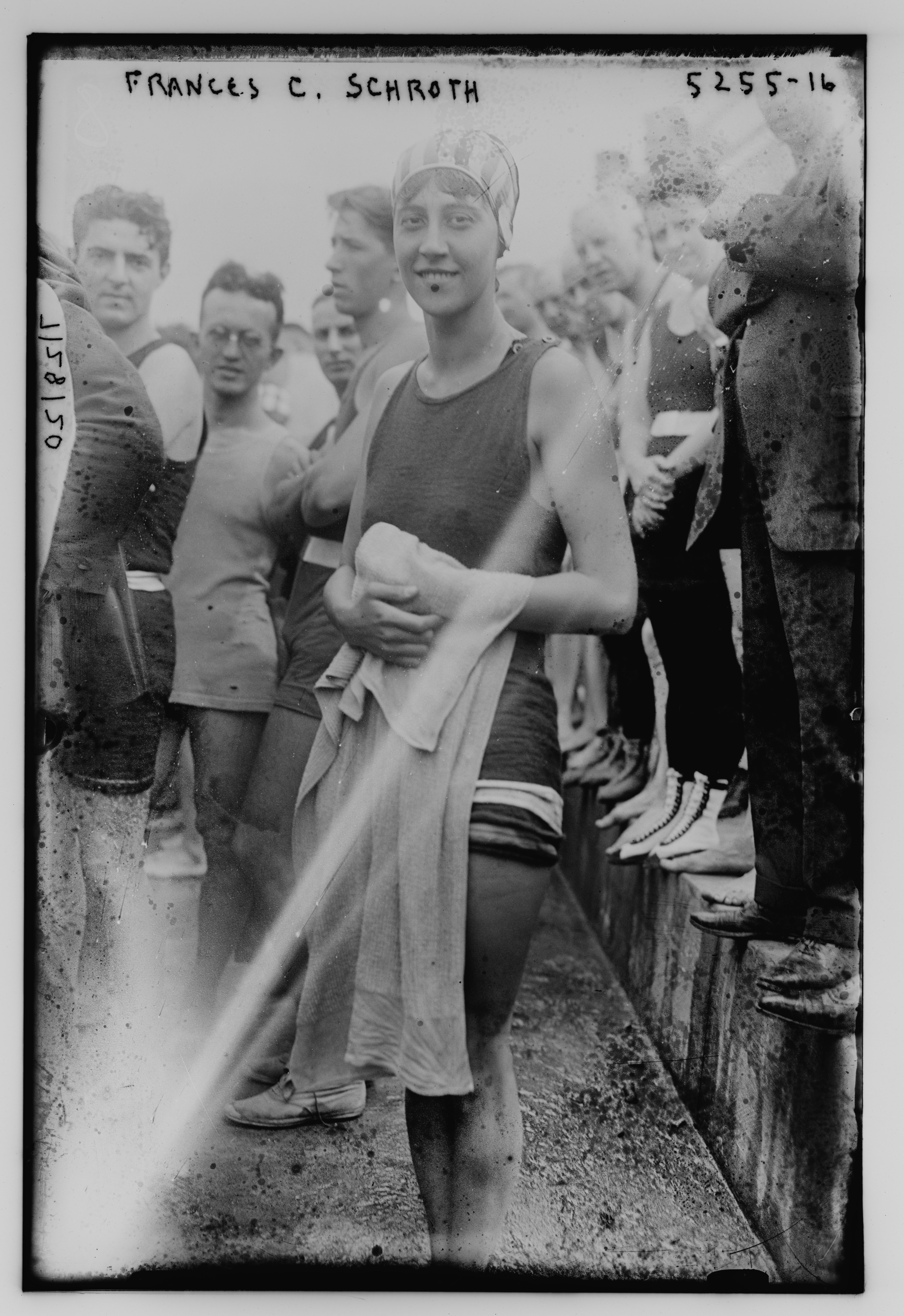 Title: Francis C. Schroth Abstract/medium: 1 negative : glass ; 5 x 7 in. or smaller.